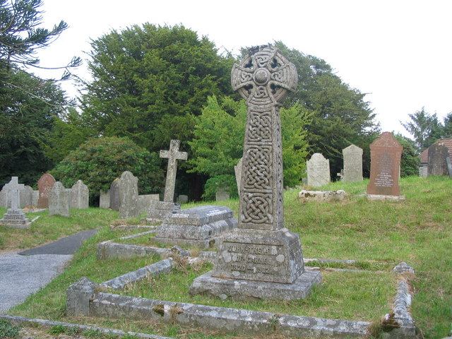 Luxulyan churchyard. A view looking east over the churchyard at Luxulyan, showing a finely carved cross.